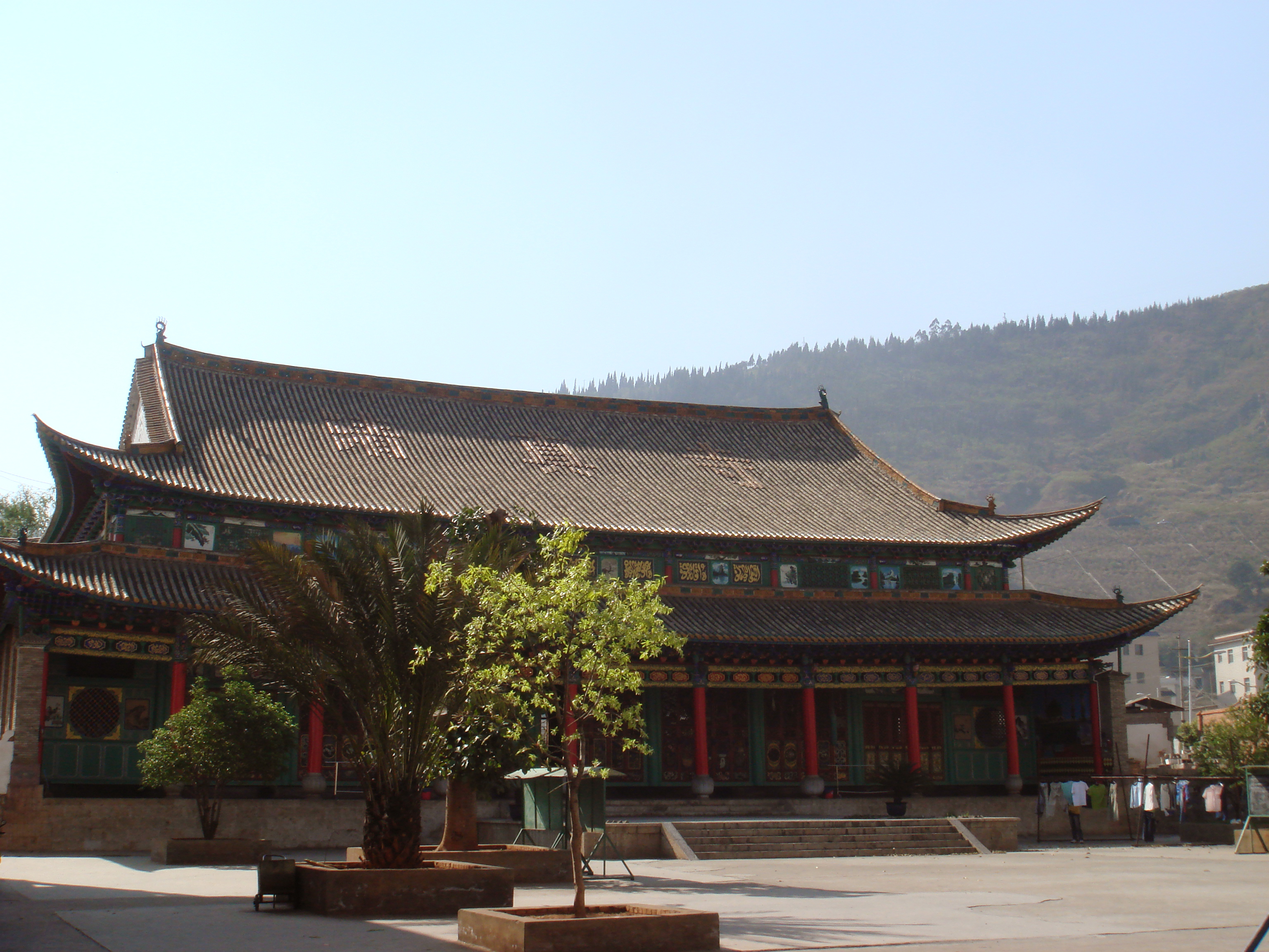 Gucheng Mosque in Yunnan, China